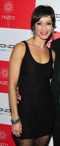 Actresses Jimena Lindo in the conference presentation of "Tondero" artists in Bogotá, Colombia, Jan. 30, 2013.